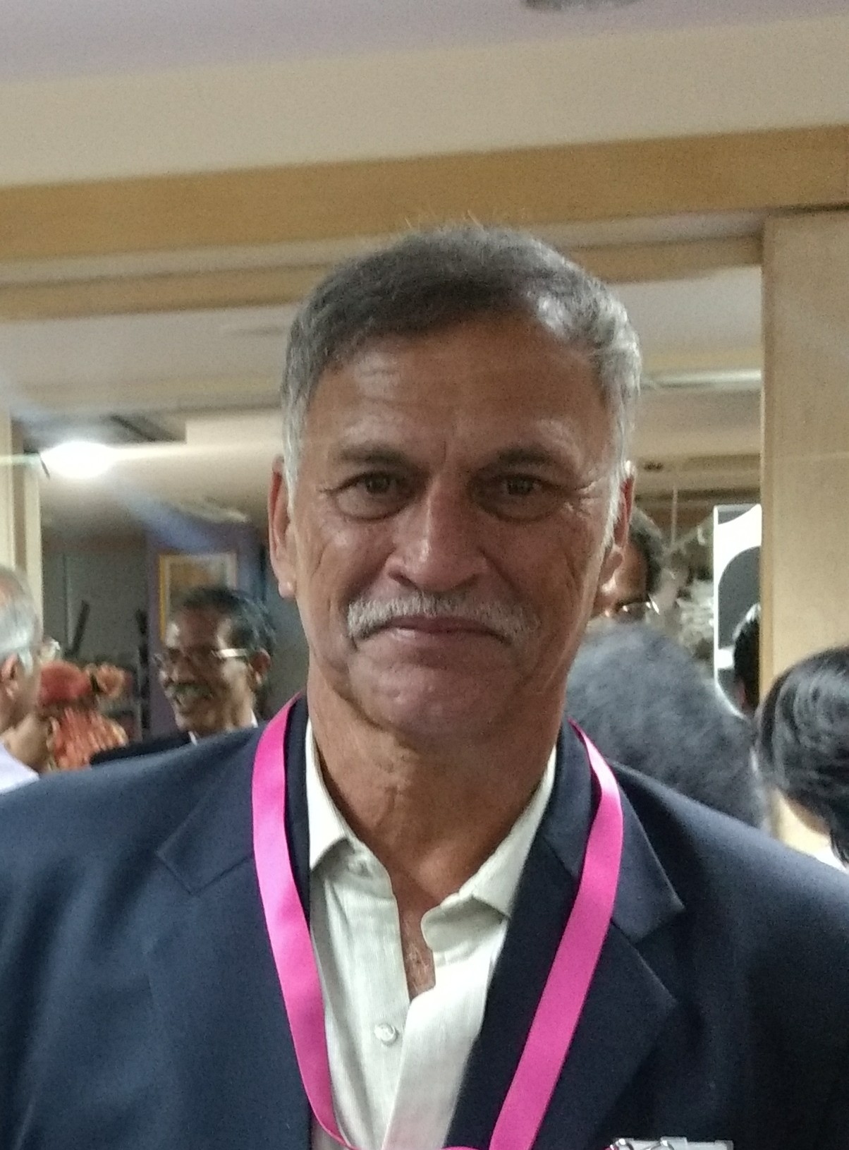 Roger Binny in 2018 at British Library, Bangalore